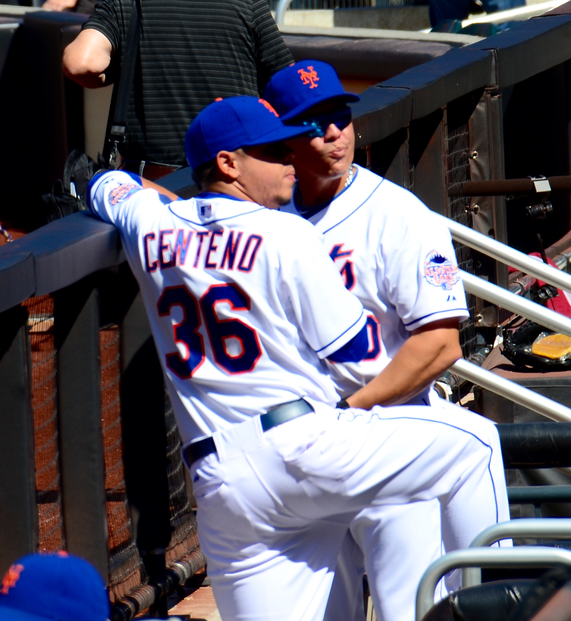 Juan Centeno as a Met.